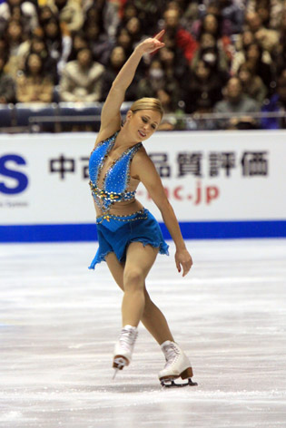 Joannie Rochette at the 2009-2010 Grand Prix of Figure Skating Final.